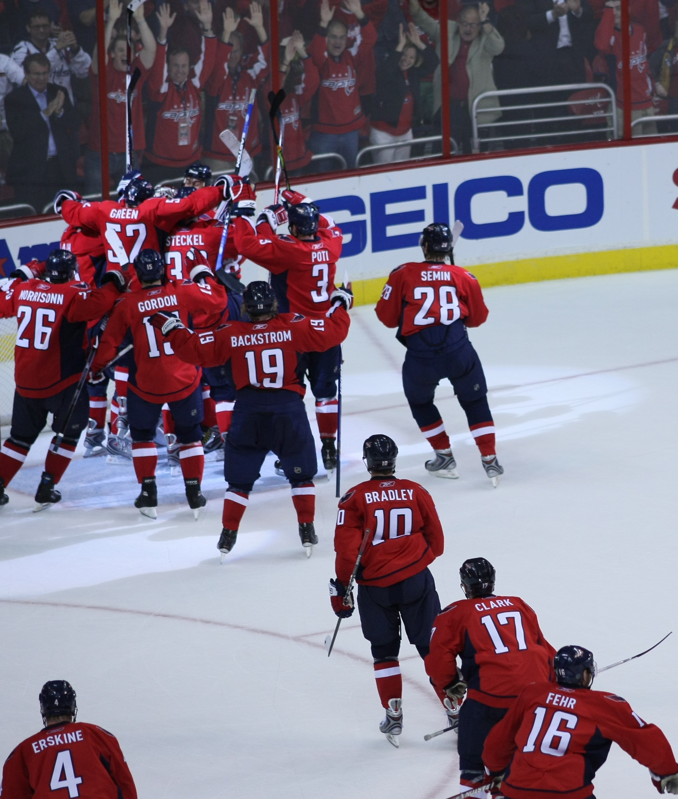 Washington Capitals